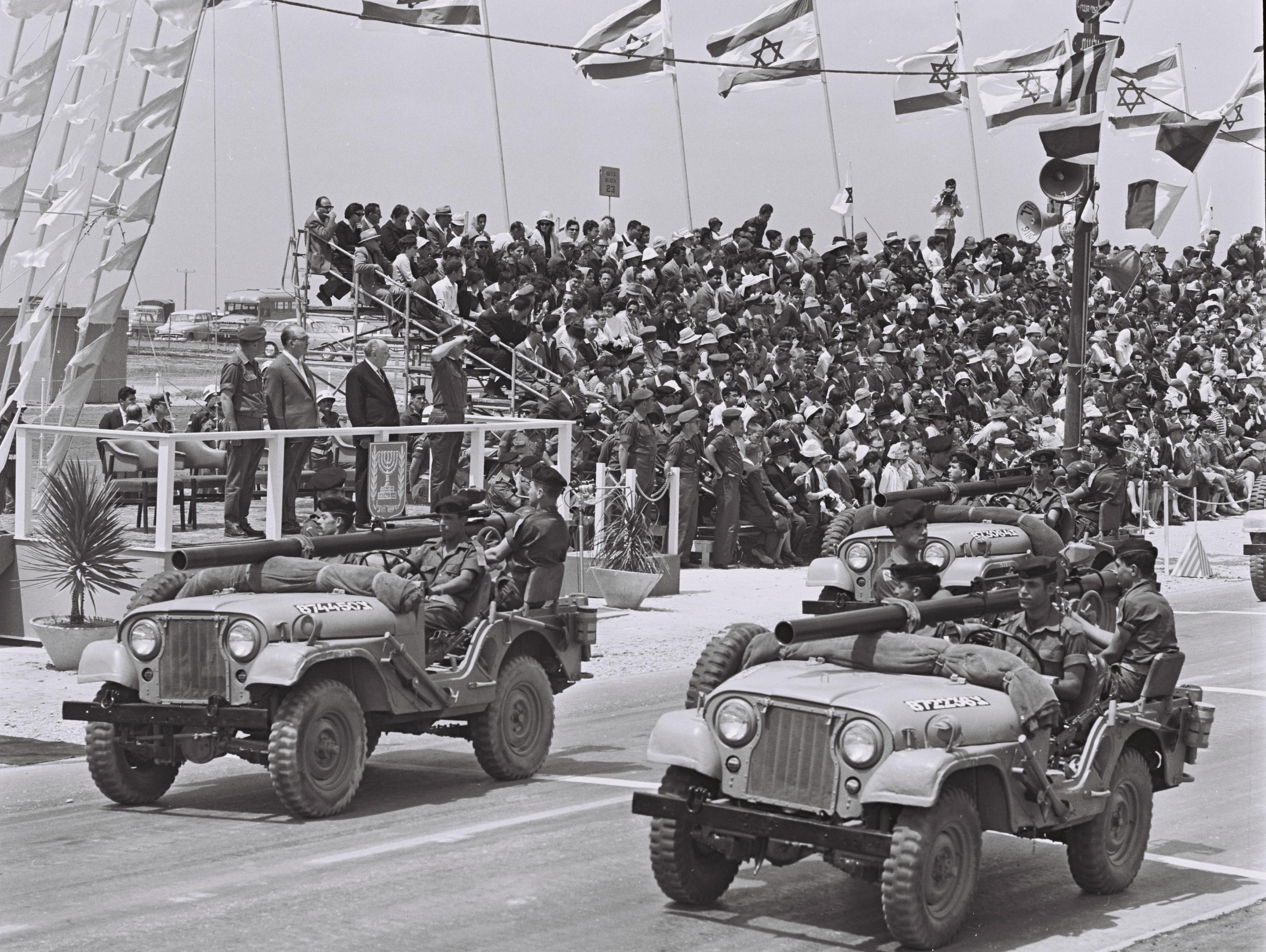 JEEP MOUNTED 106 MM RECOILLESS ANTI TANK GUNS, DURING THE INDEPENDENCE DAY PARADE, IN BEER-SHEBA.